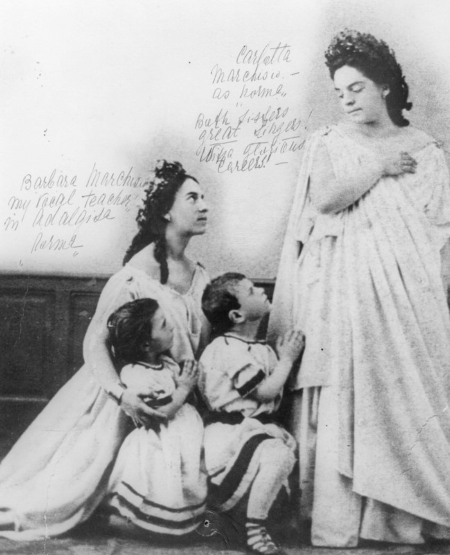 Photo portrait of the Marchisio sisters, 1860s (with Rosa Raisa's annotations) Other information Charles Mintzer Collection, used with permission for Rosa Raisa article on Wikipedia. Permission to use this photo must be granted by Mr. Mintzer and must be attributed to this collection.